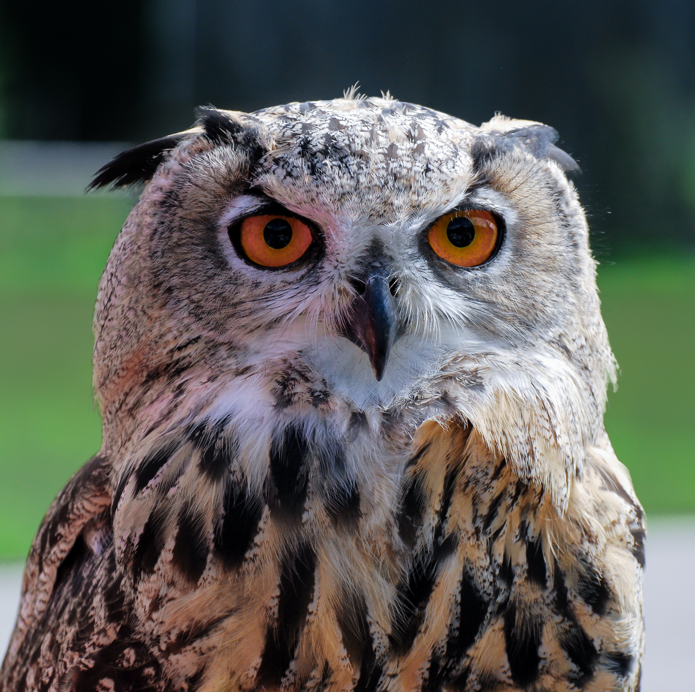 Bubo Bubo, photographed in captive at bird park Lenggries, Germany